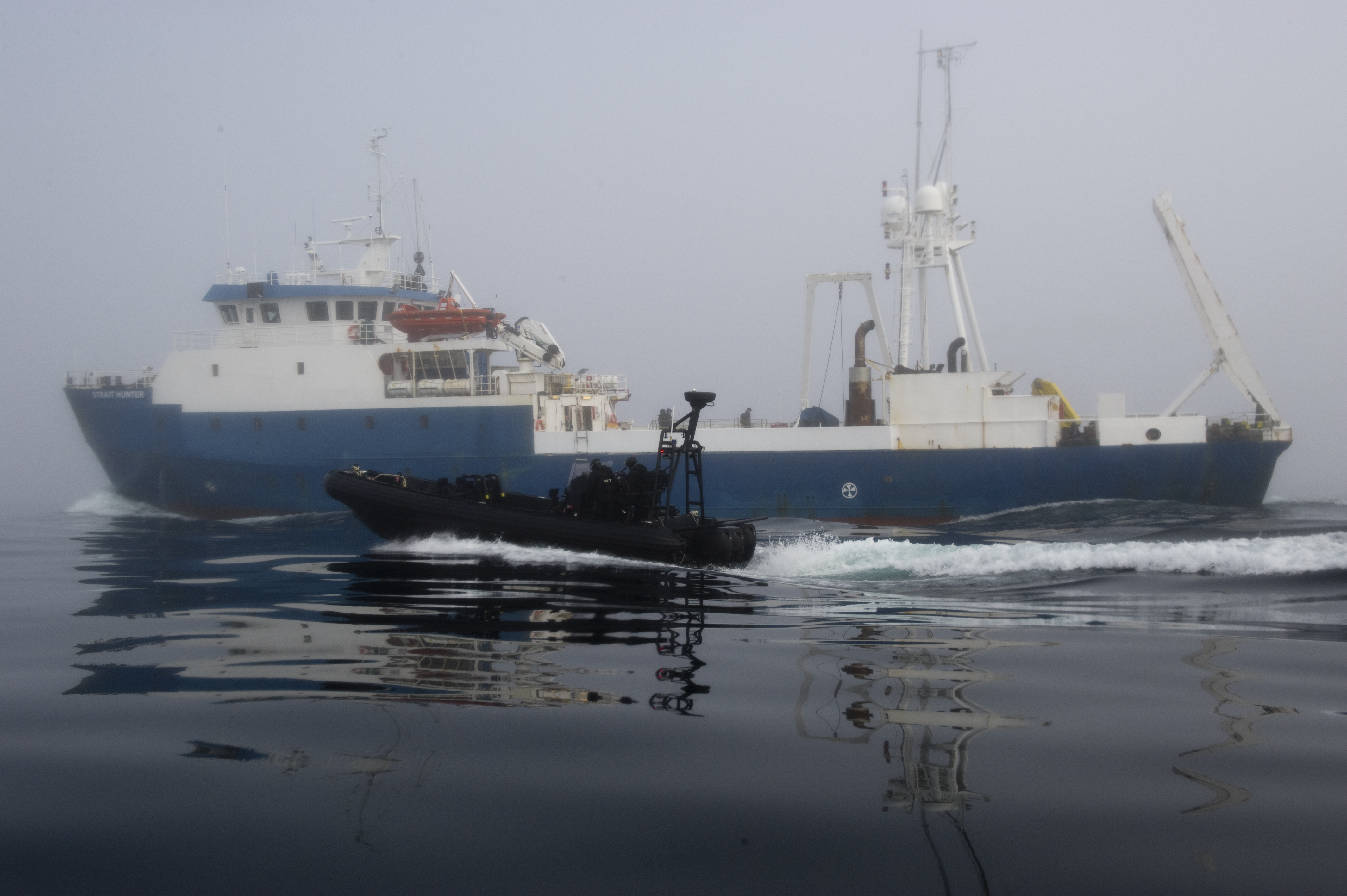 Royal Canadian Mounted Police assigned to a Marine Security Emergency Response Team maneuver their boat after boarding a ship during Frontier Sentinel 2012 in Sydney, Canada, May 8, 2012. Frontier Sentinel is a combined U.S. Navy, U.S. Coast Guard and Canadian Forces exercise focusing on mine countermeasures and migrant vessel scenarios off the east coast of the United States and Canada. The exercise is one of the field components of Ardent Sentry, a U.S. Northern Command exercise focusing on simulated weather, security and disaster contingencies.